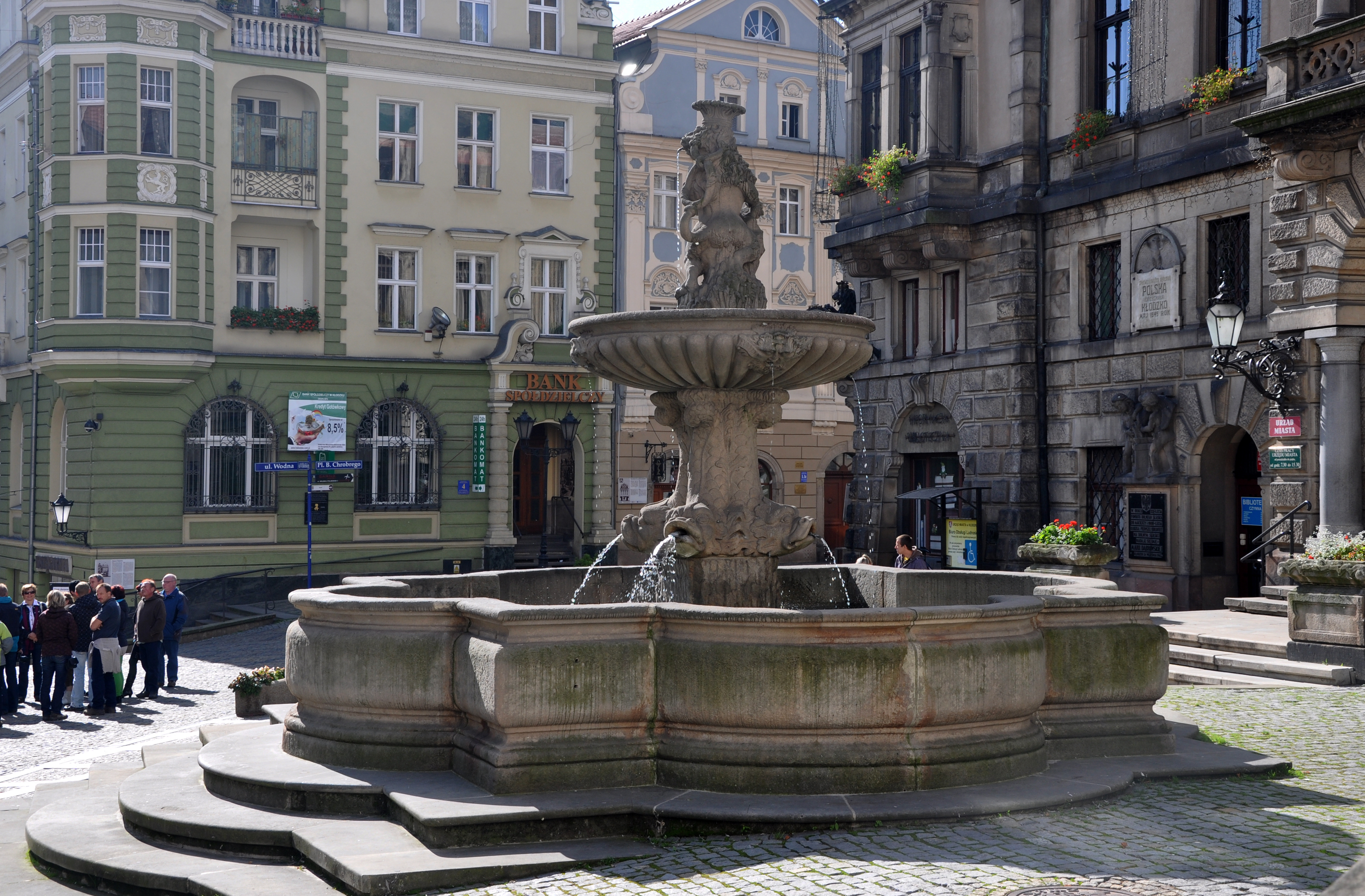 Kłodzko, city. Baroque "Lion's fountain", 17/18th century.